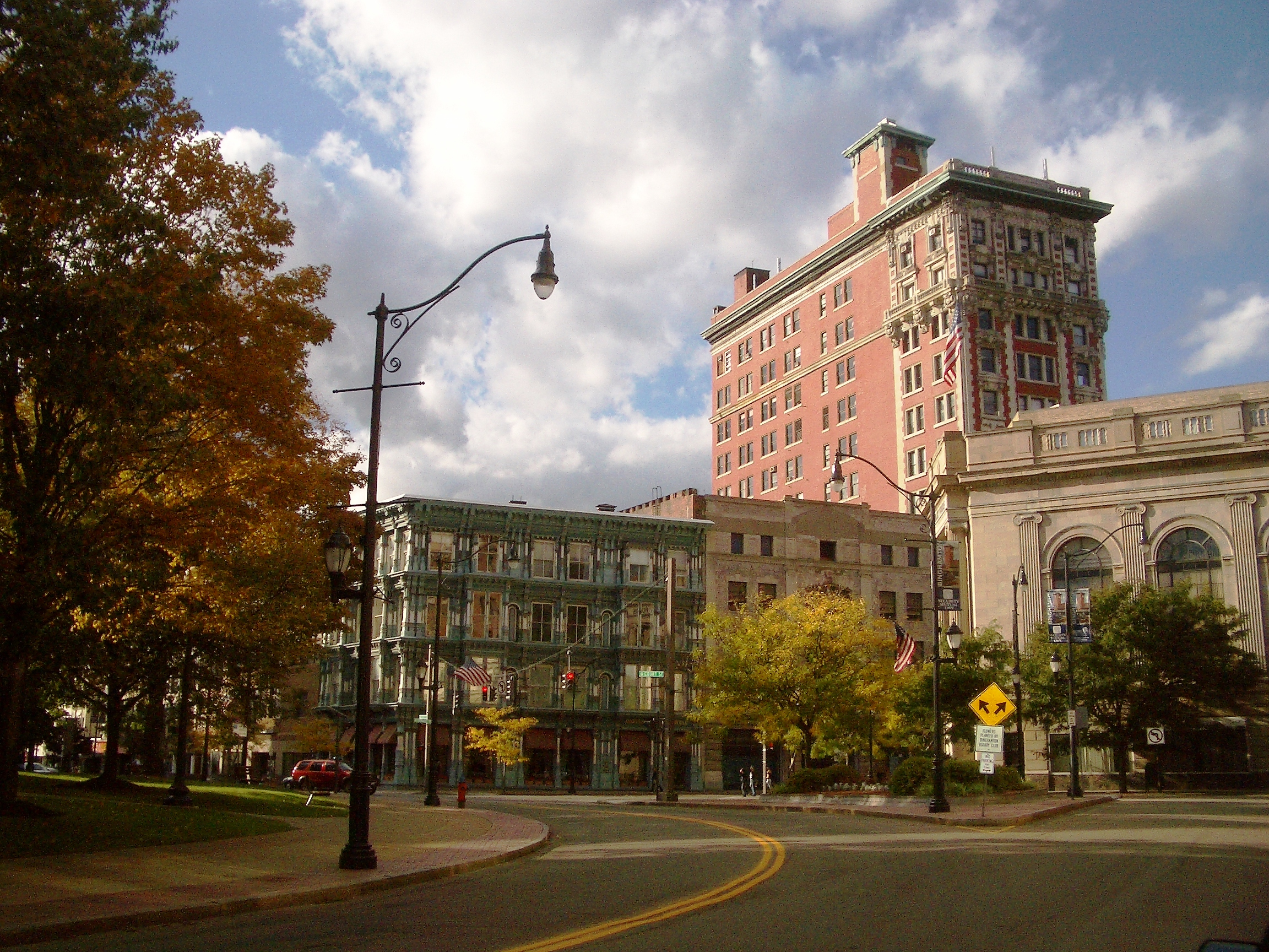 I took the photo